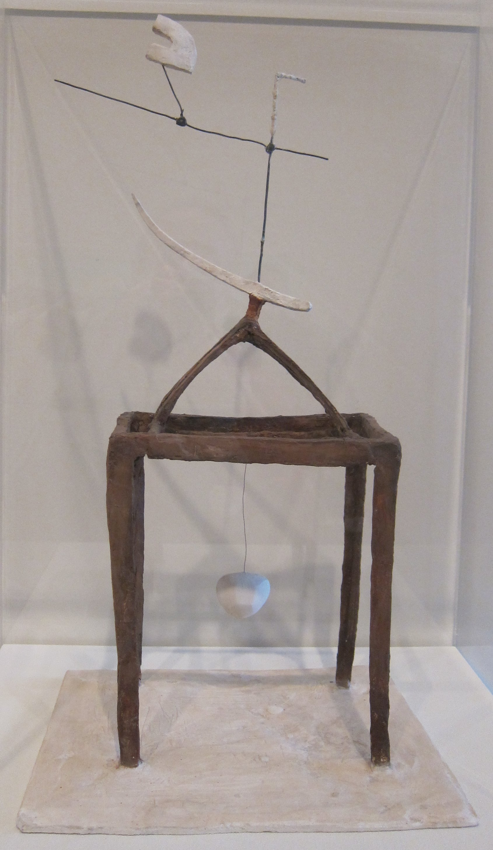 Hour of the Traces, metal wire and plaster sculpture by Alberto Giacometti, 1939, Tate Modern